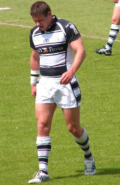 Lee Radford